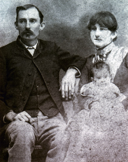 James Brown (Jim) Miller, his wife Sarah Francis “Sallie” (Clements) Miller, and child, probably son Claude C. Miller; circa 1890s.